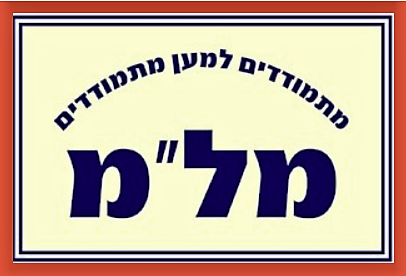 LOGO MALAM ׂ2003ׁ